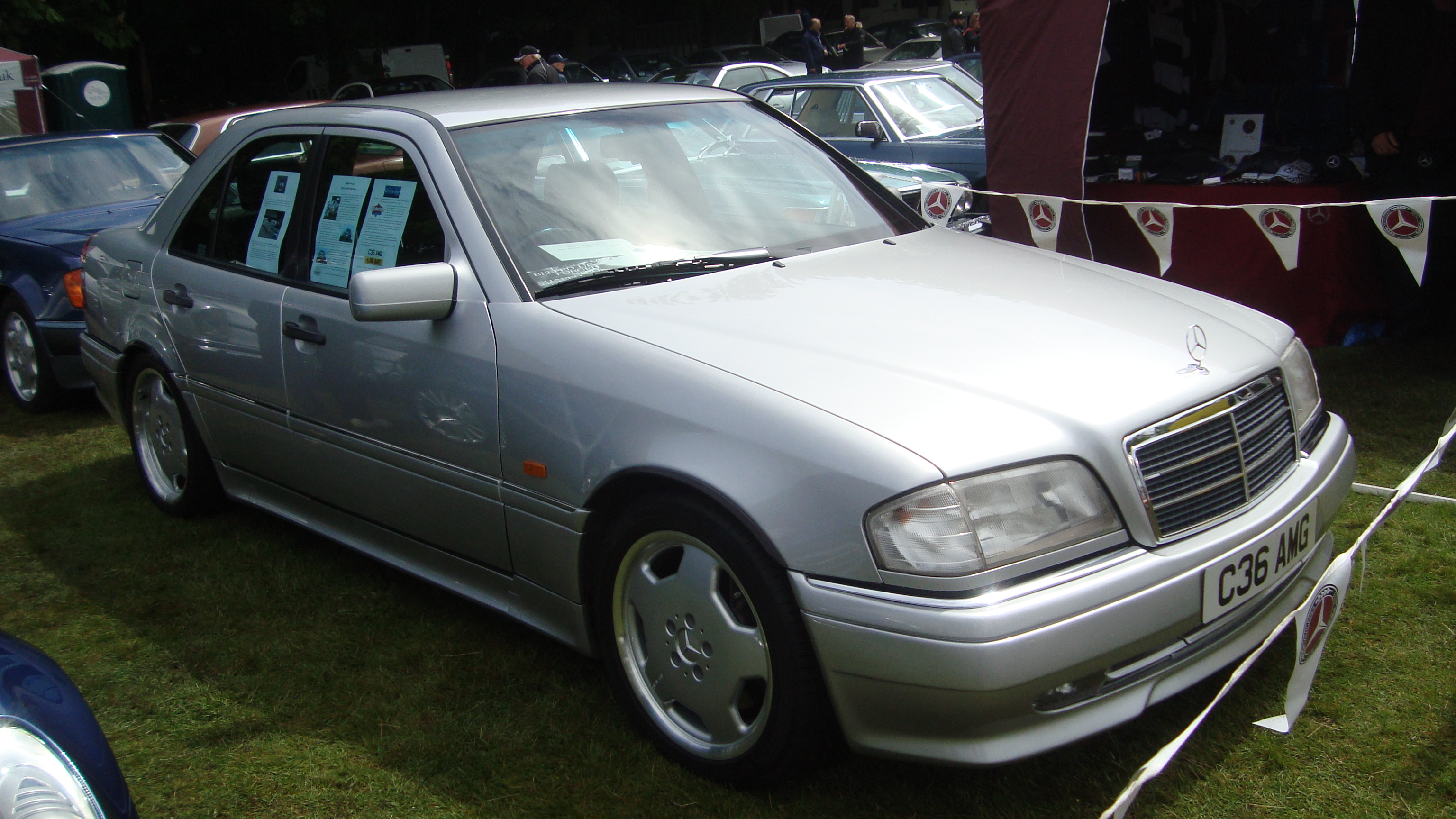 Must have only had this numberplate transferred as nothing came up on the DVLA or cartell when I checked it up a few weeks ago